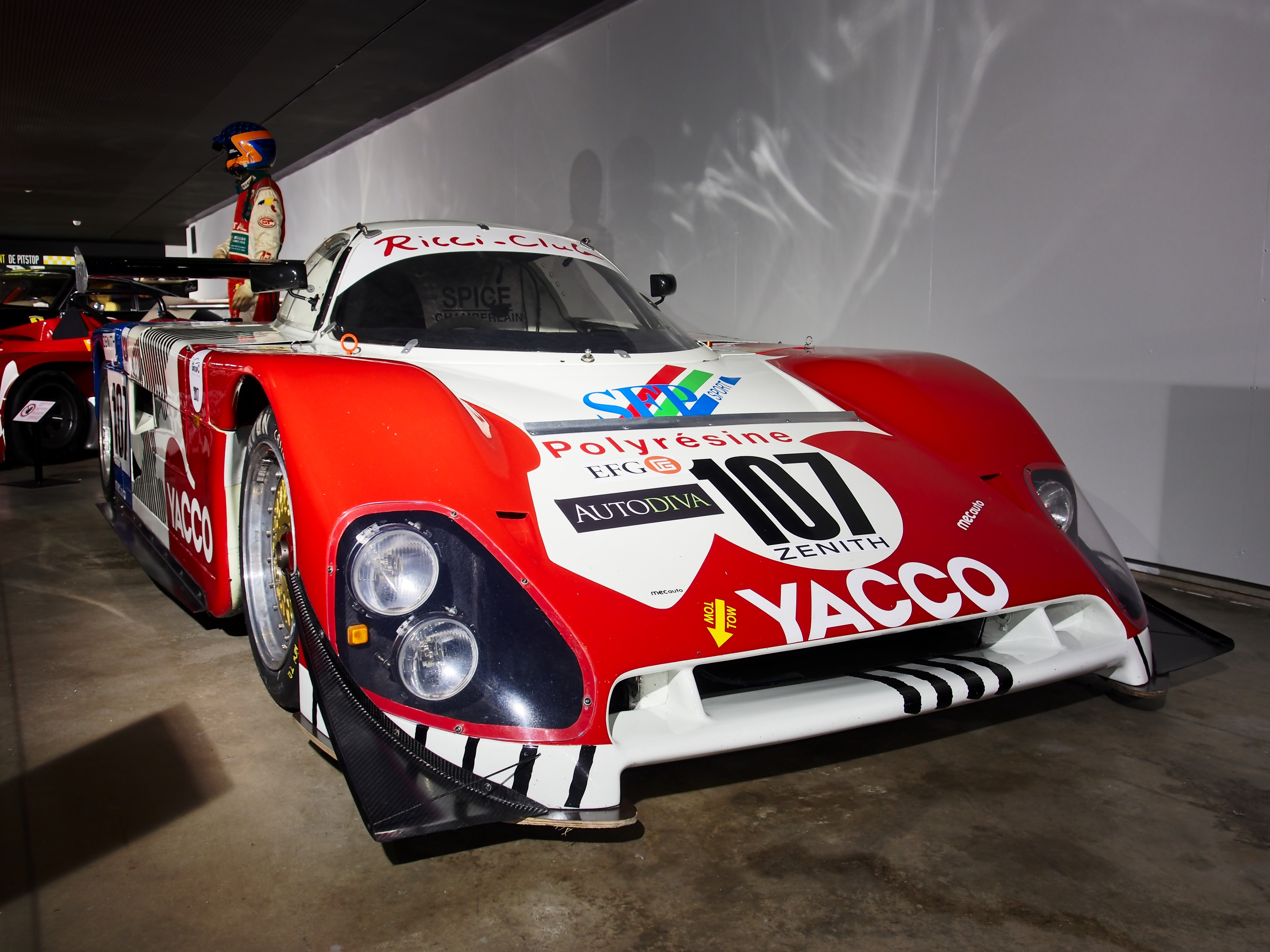 Photographed at the Spa-Francorchamps Racing Museum.